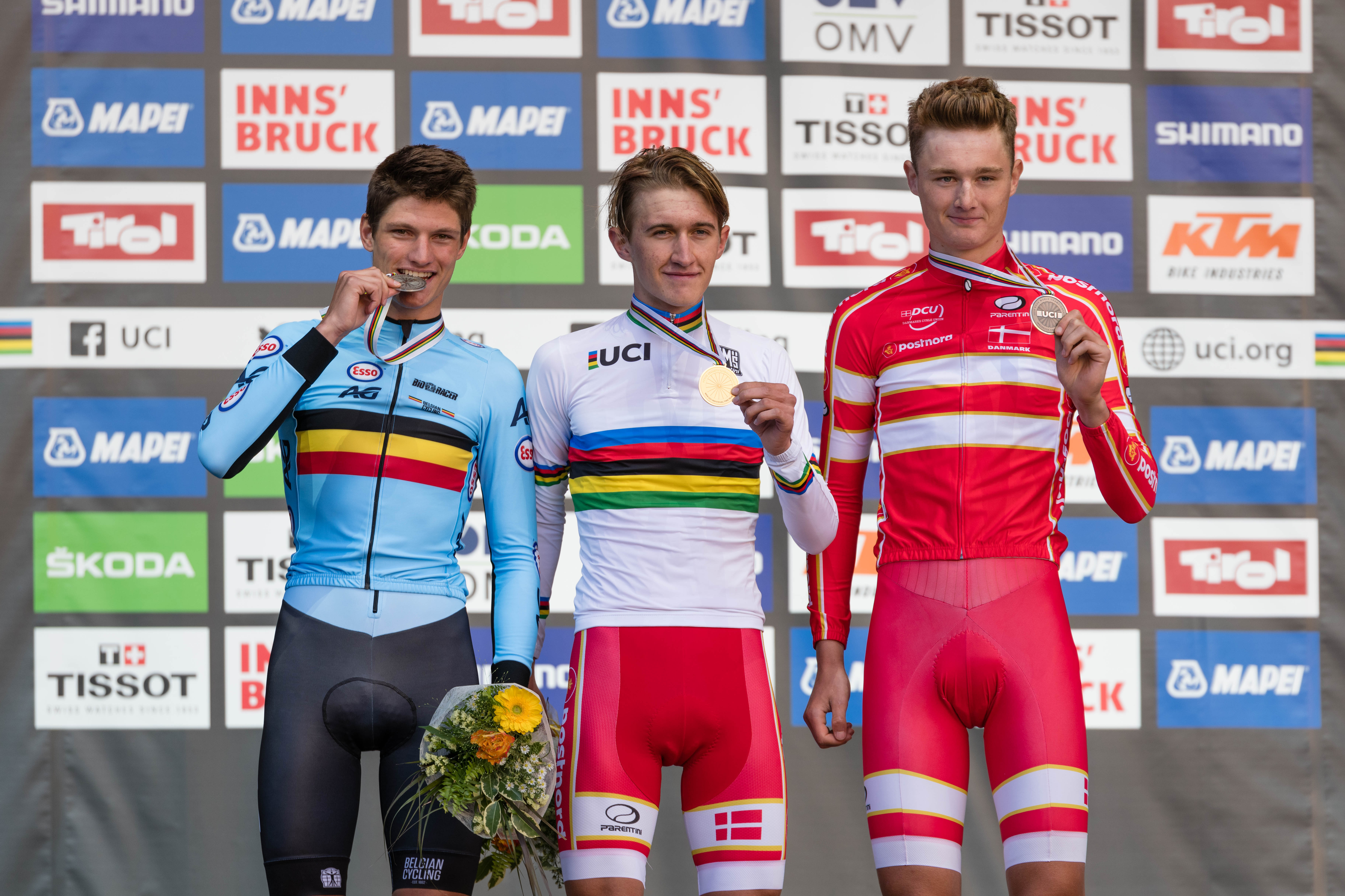 2018 UCI Road World Championships Innsbruck/Tirol Men under 23 Individual Time Trial. Picture shows: Award Ceremony Men under 23 Individual Time Trial with Brent van Moer (BEL), Mikkel Bjreg (DEN) and Mathias Norsgaard Jorgensen (DEN)